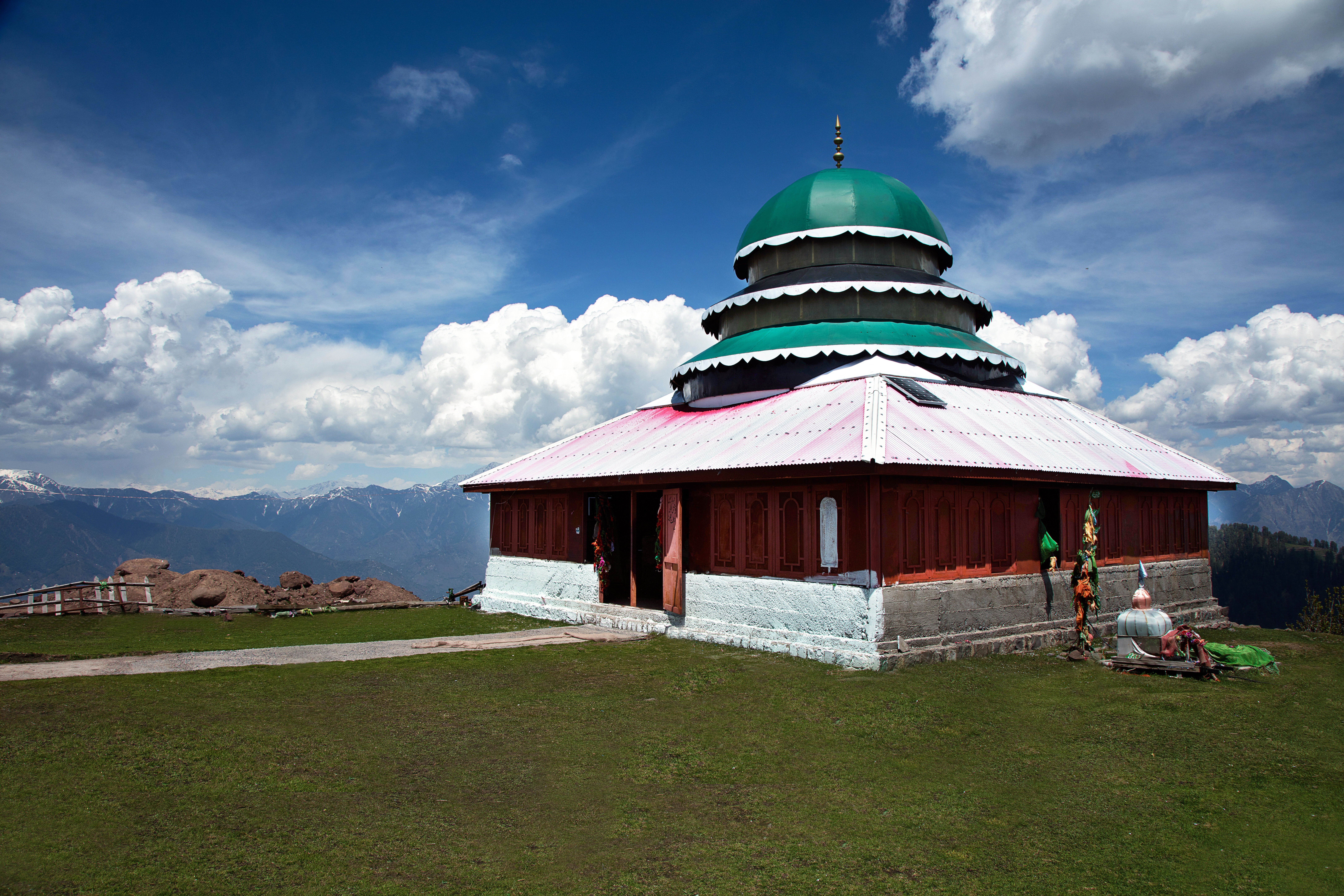 Pir Chinasi (Pir Shah Hussain Bukhari's shrine) This is a photo of a monument in Pakistan identified as the AJK-17